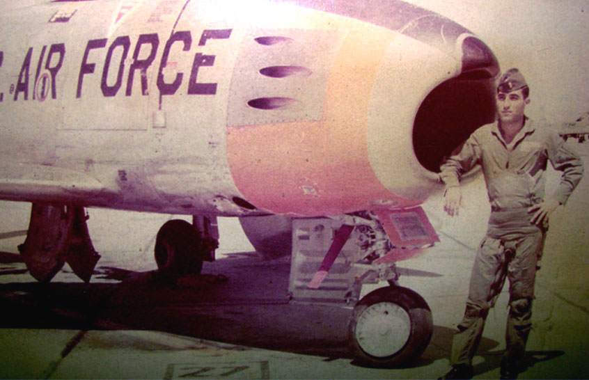 Jamshid Alyha(Iranian pilot of Imperial Iranian Air Force (IIAF)) trained on F-86 Sabres at Laredo Air Force Base near Laredo, Texas, in the United States of America.